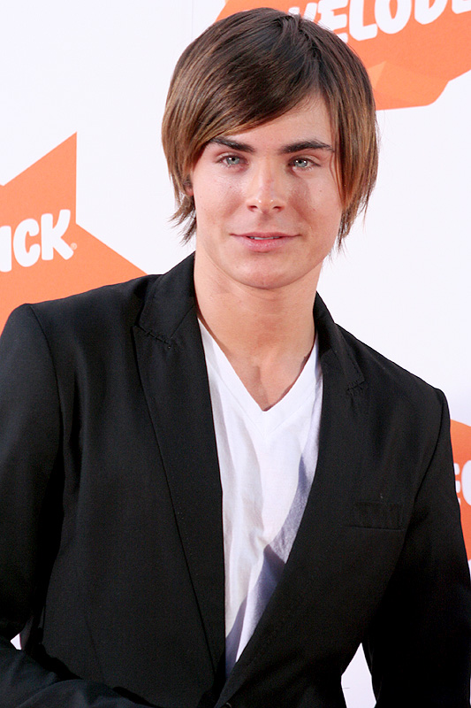 Zac Efron, Nickelodeon Awards 2007, Sydney